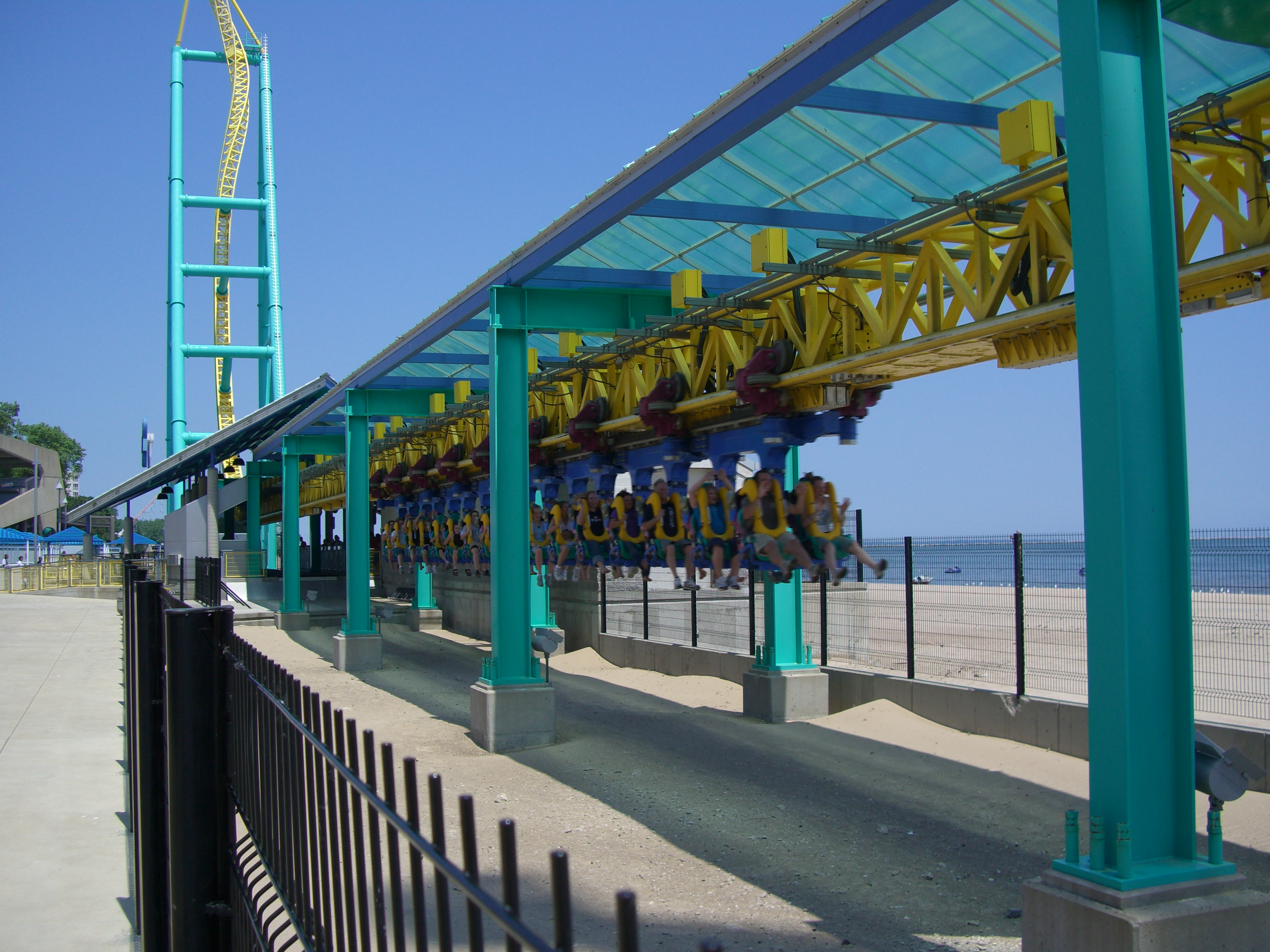 Wicked Twister, a LIM (magnetic) launched shuttle roller coaster, launching.